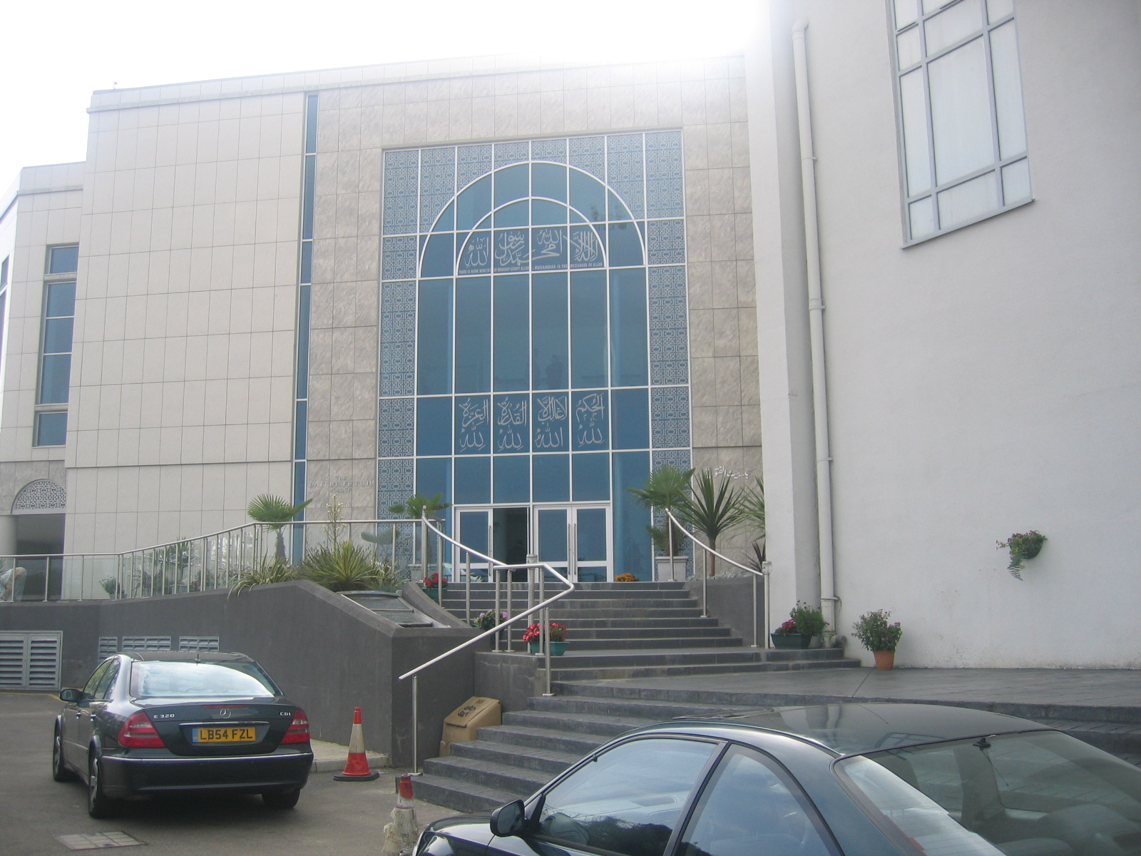 The Baitul-Futuh-Mosque from the main entrance